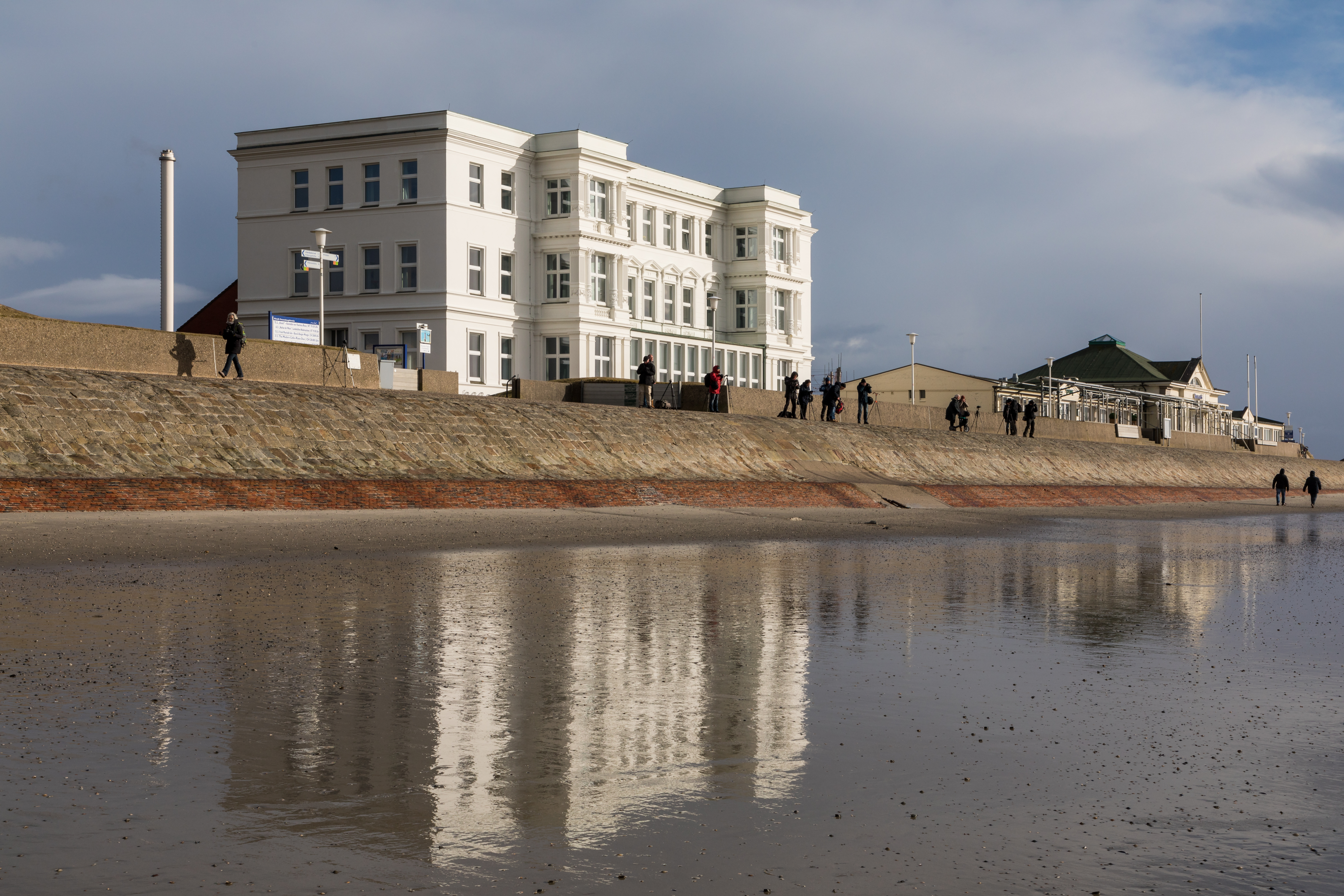 Former Hanebuth Mansion (“Haus am Weststrand”) and restaurant “Giftbude”, Norderney, Lower Saxony, Germany